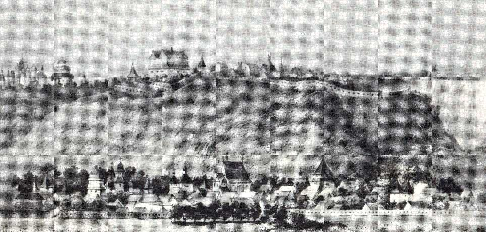 View of Podil and old castle in Kiev, 1651.